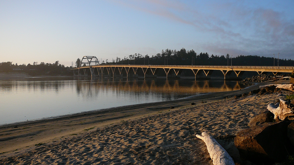 I am the author of this photo. It can also be found at